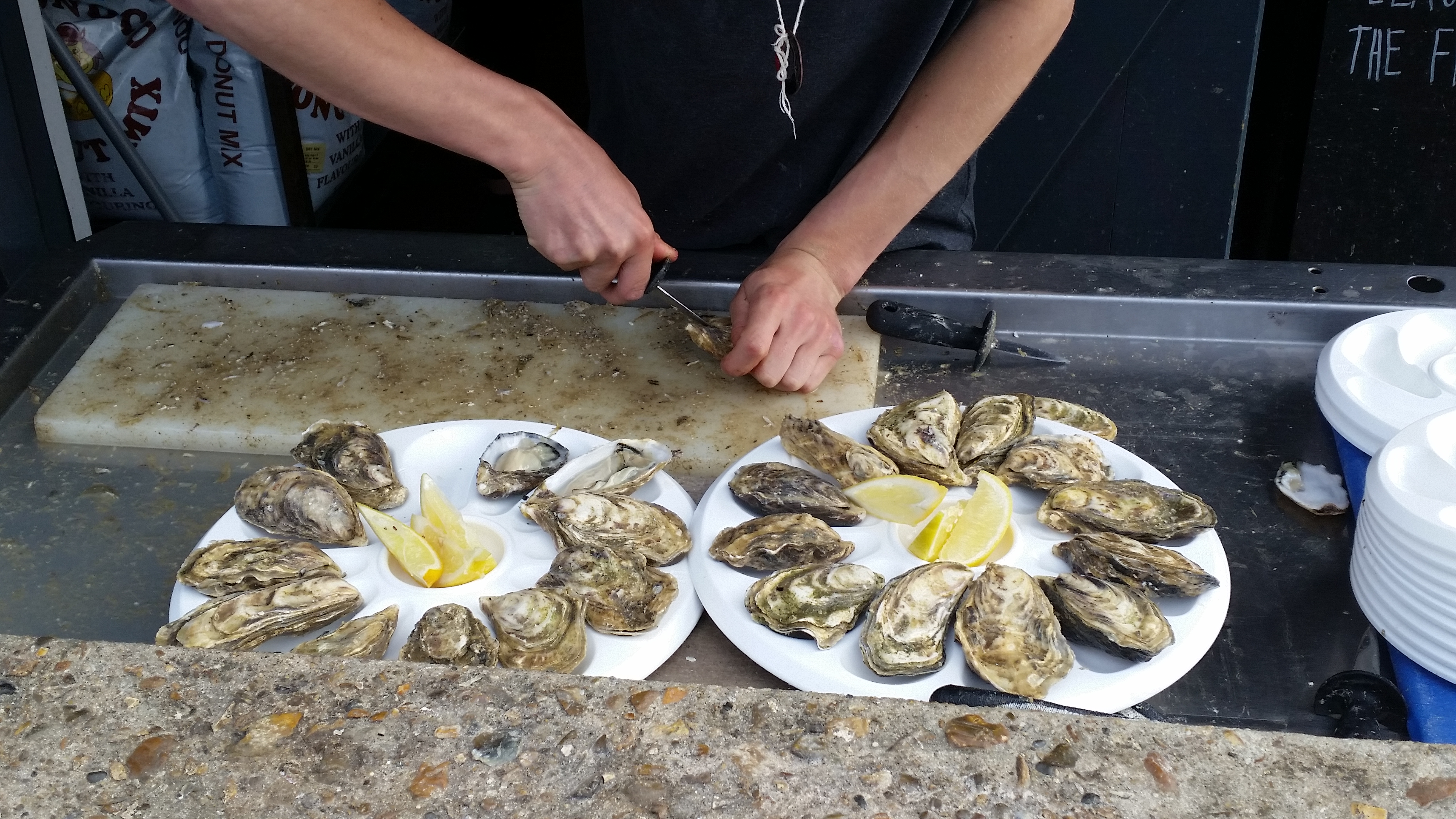 European flat oyster, mud oyster or edible oyster (Ostrea edulis) as food in Whitstable, England.